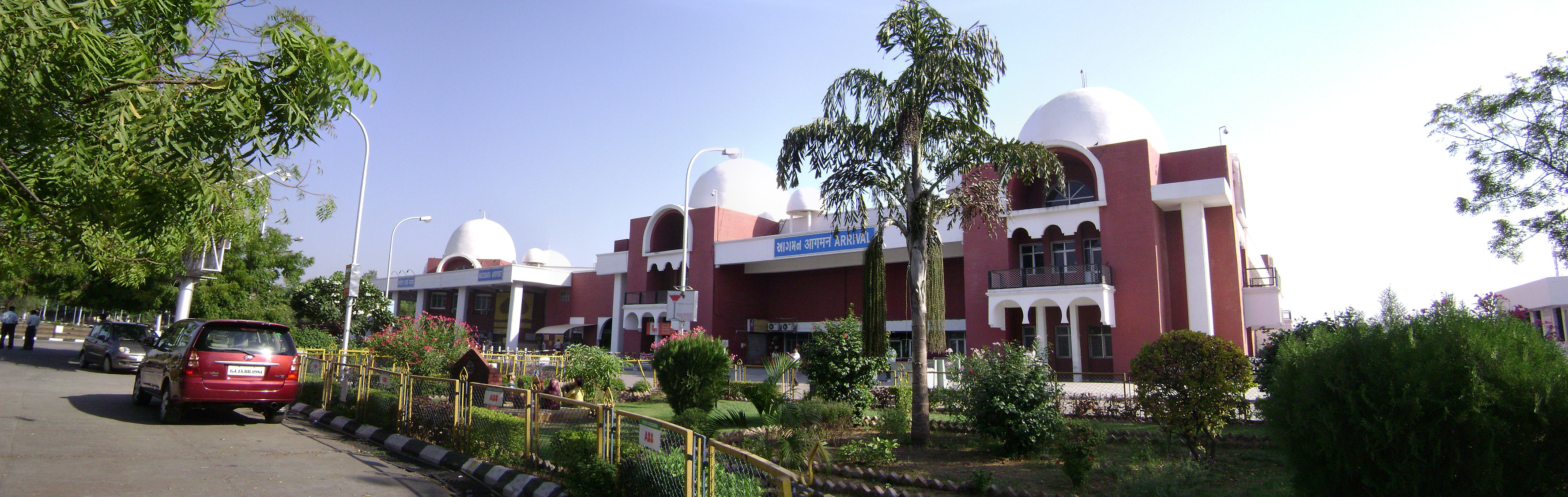 A panoramic view of the Vadodara Airport.